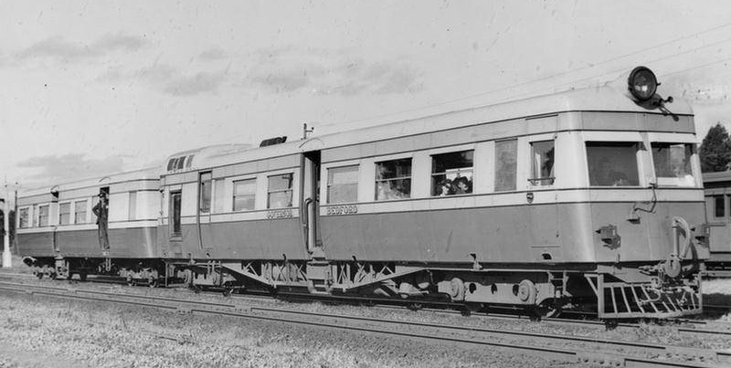 A three quarter view of WAGR ADE ("Governor") class railcar no. 451 Governor Bedford (right) and purpose built ADT class trailer no. 7 (left), at Midland, Western Australia.